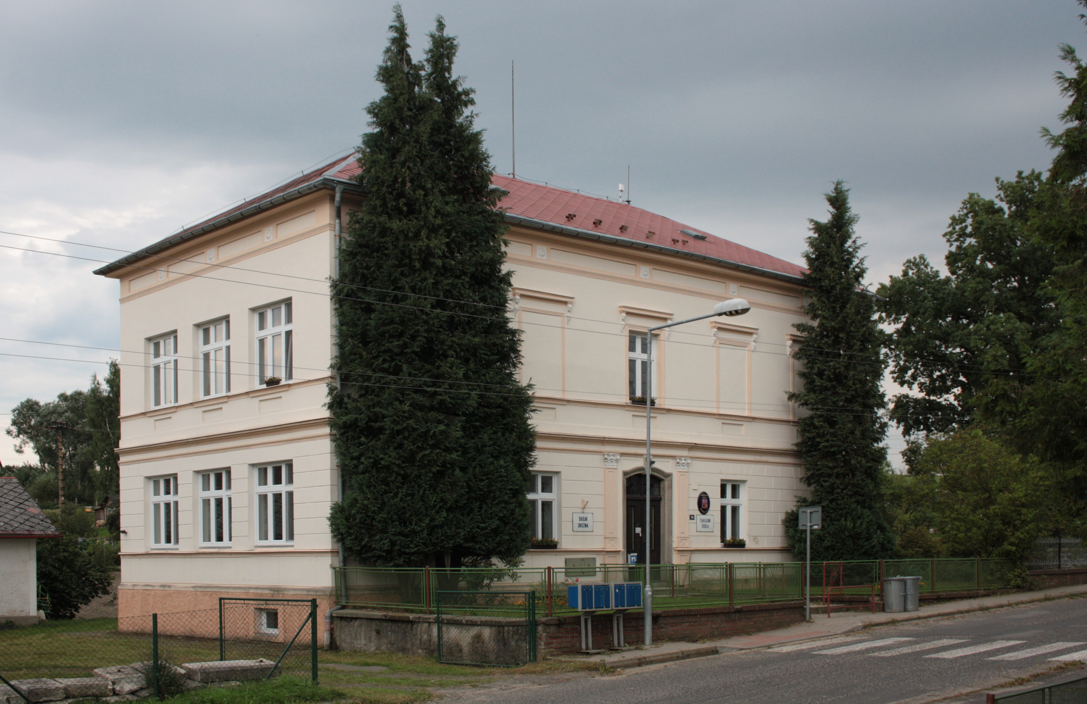 This photograph was taken with a DSLR from WMCZ's Camera grant. Škola v Kunraticích poblíž Frýdlantu v okrese Liberec.